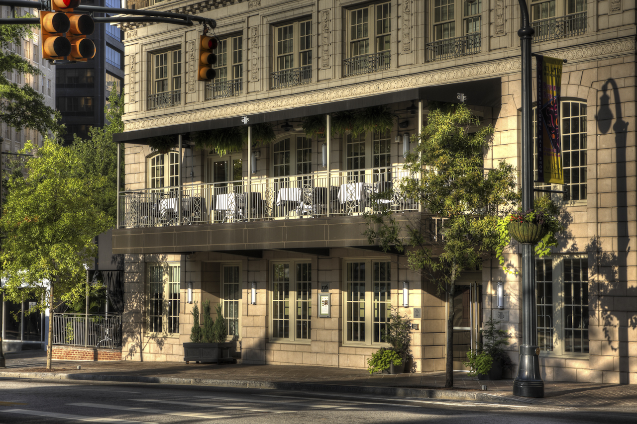 Ellis Hotel, formerly Winecoff